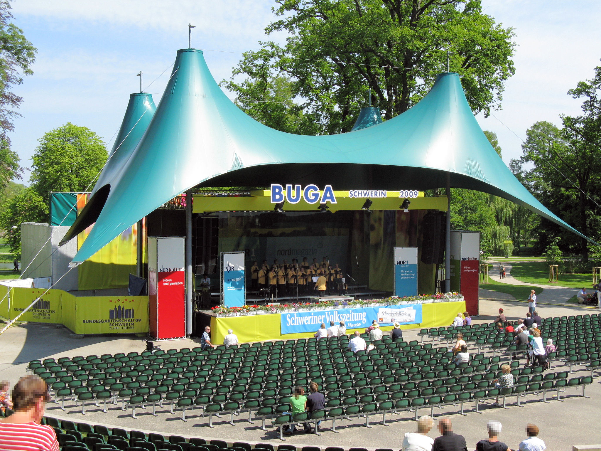 Bundesgartenschau 2009 - Open air stage in Schwerin, Mecklenburg-Vorpommern, Germany